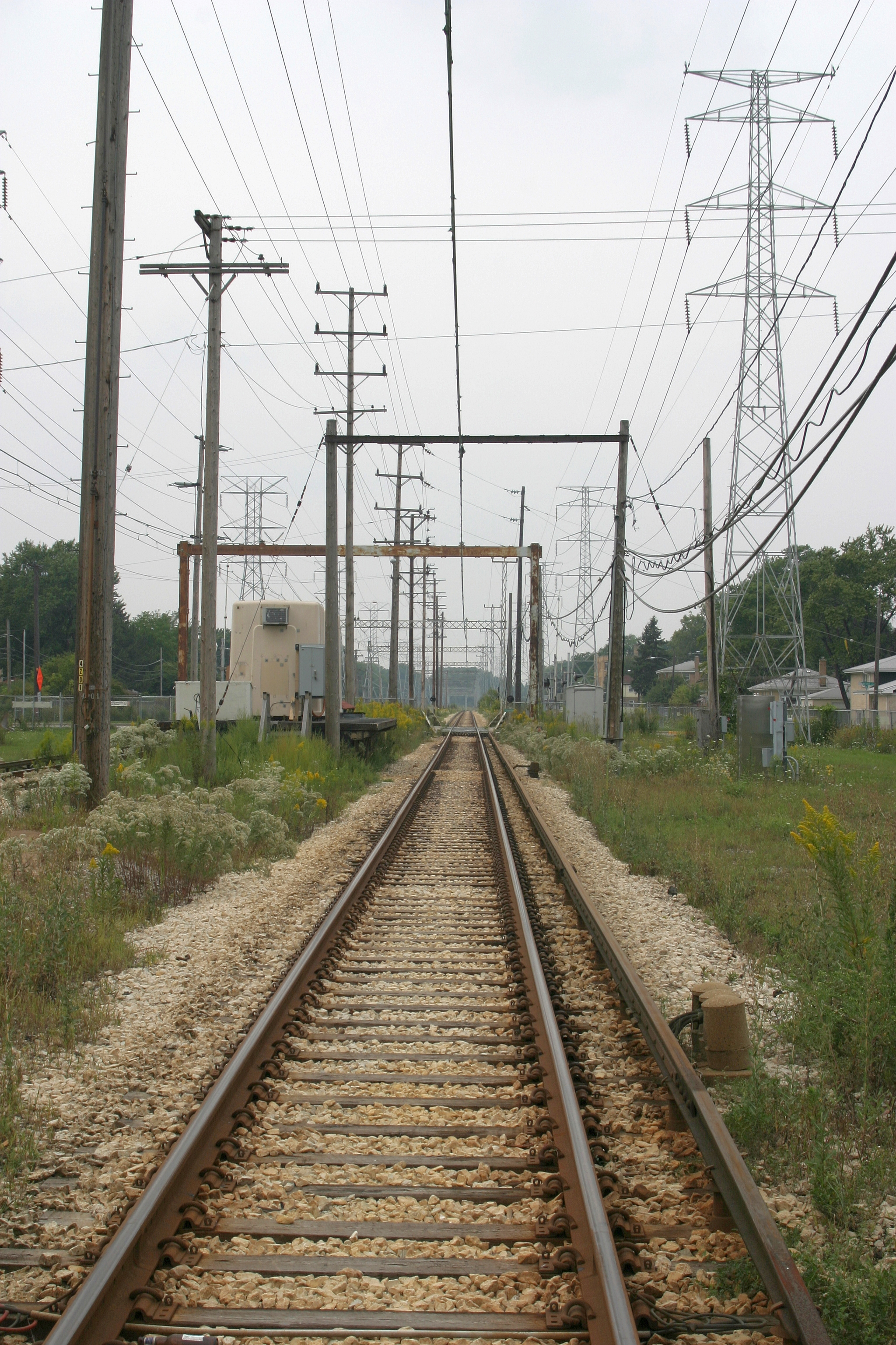 3rd rail to overhead wire transition zone on the Skokie Swift. Located at East Prarie Road in Skokie, Il.